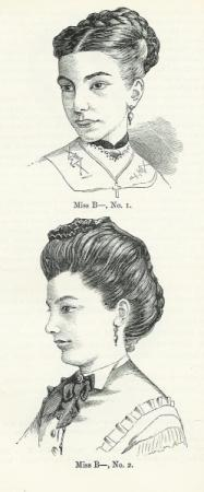 This image is a reproduction of two photographs taken around 1868 and 1872 (photographer unknown). It depicts Miss B, an unnamed patient of William Withey Gull, before and after treatment for anorexia nervosa. Gull used these images to illustrate his 1873 paper "Anorexia Nervosa (Apepsia Hysterica, Anorexia Hysterica)" in which anorexia nervosa was described and which first established the name of the condition